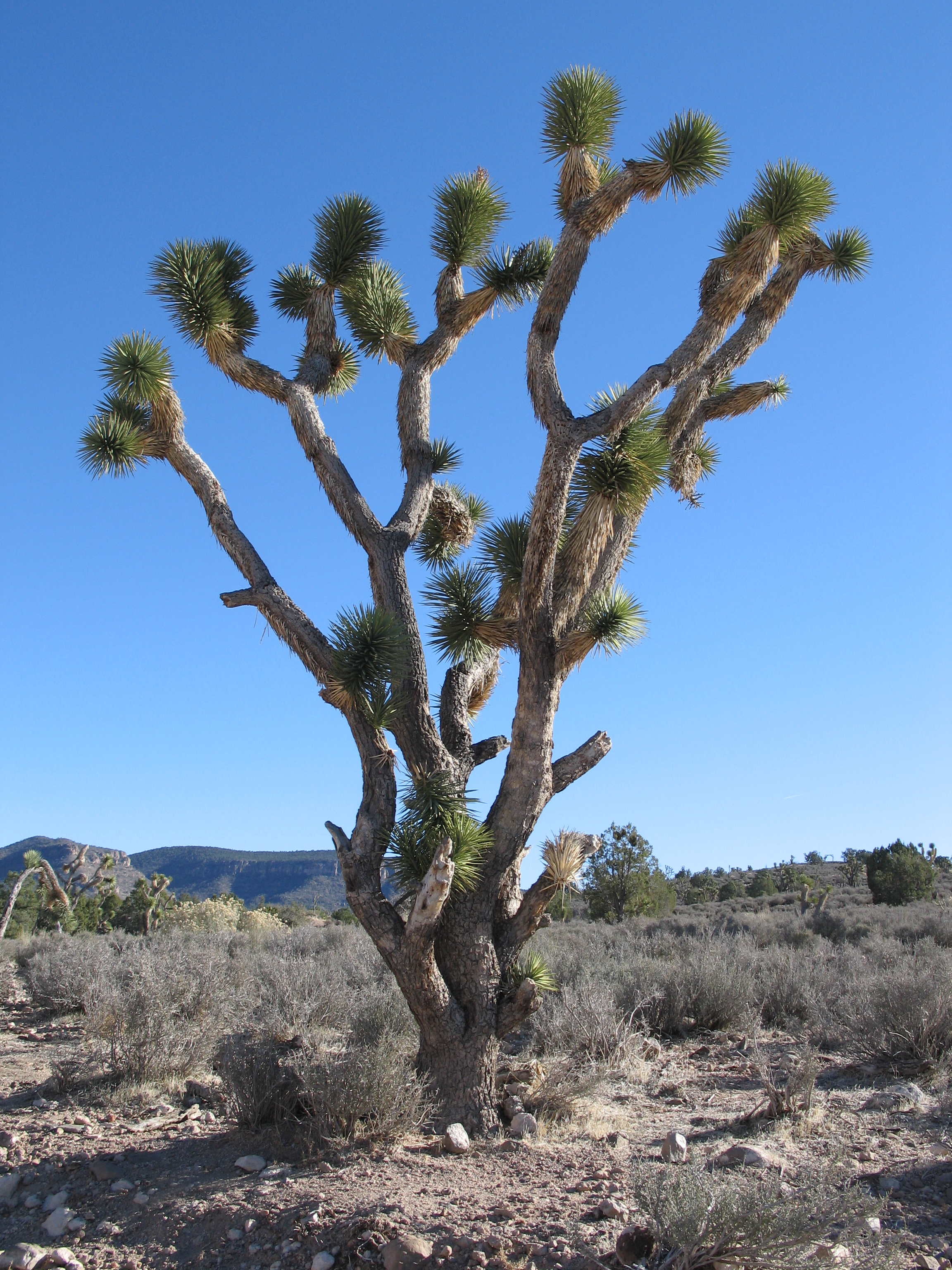 A joshua tree at the Grand Canyon West Ranch in Arizona.